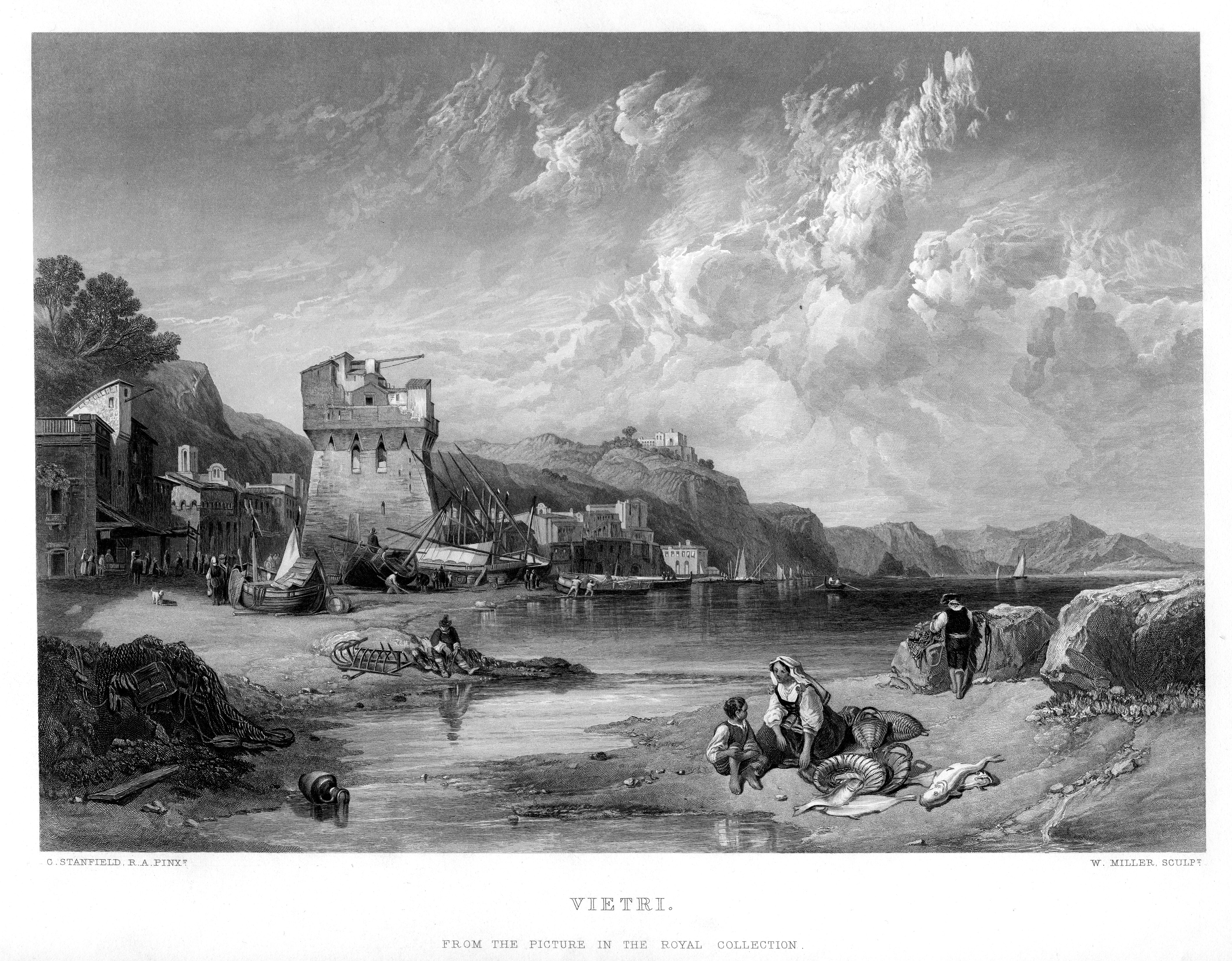 Vietri, engraving by William Miller after Clarkson Stanfield, published in The Art Journal, New Series Volume V, 1859. James S. Virtue, London 1859